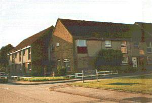 Rattray Place, Tillydrone, Aberdeen, Scotland